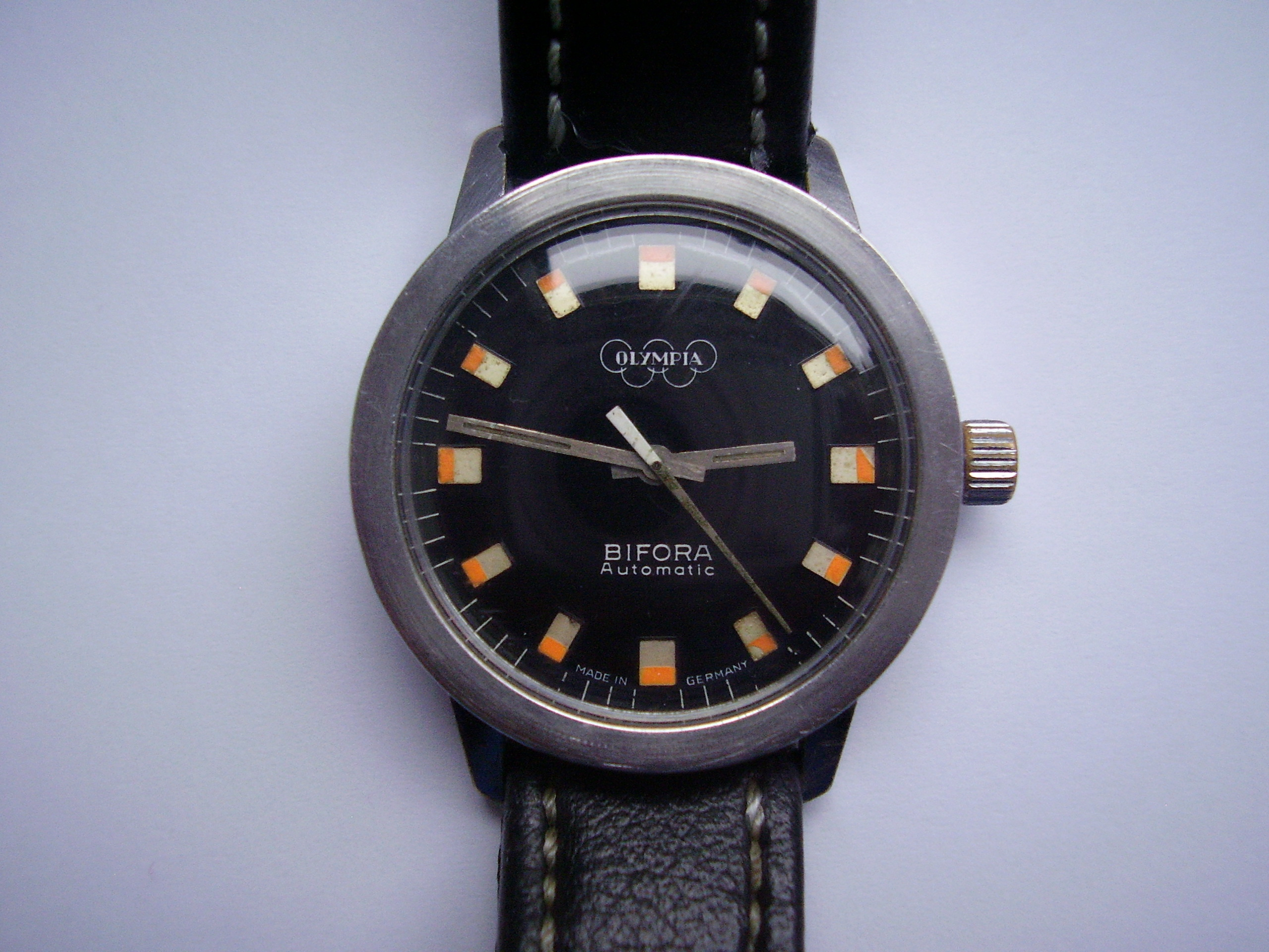 Bifora watch Olympia Edition 1972